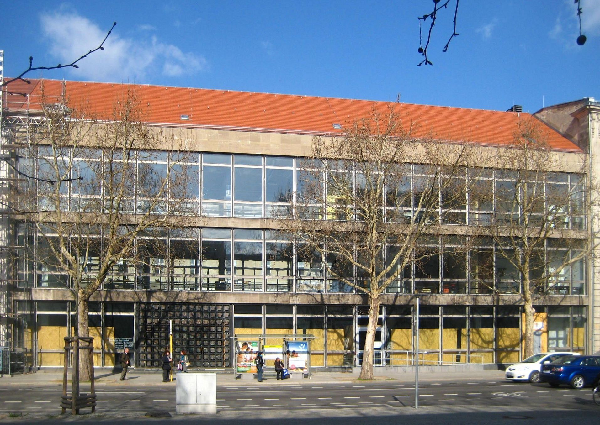 New building of the Berlin City Library at Breite Straße No. 32-34 in Berlin-Mitte. The building connects the older neighboring structures of the Ribbeck-Haus and the Neuer Marstall (New Royal Stables) which are also part of the library complex. It was constructed from 1964 to 1966 to a design by an architects' collective under Heinz Mehlan. The building has been designated as a historic landmark.